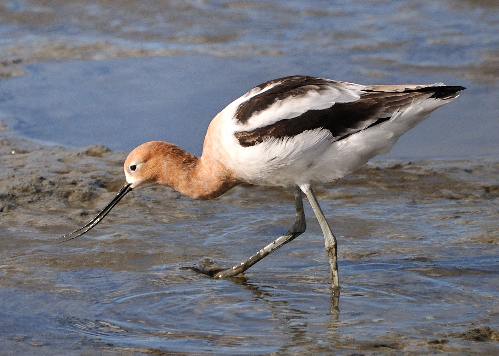 American Avocet at Palo Alto Baylands Nature Preserve, California, USA.